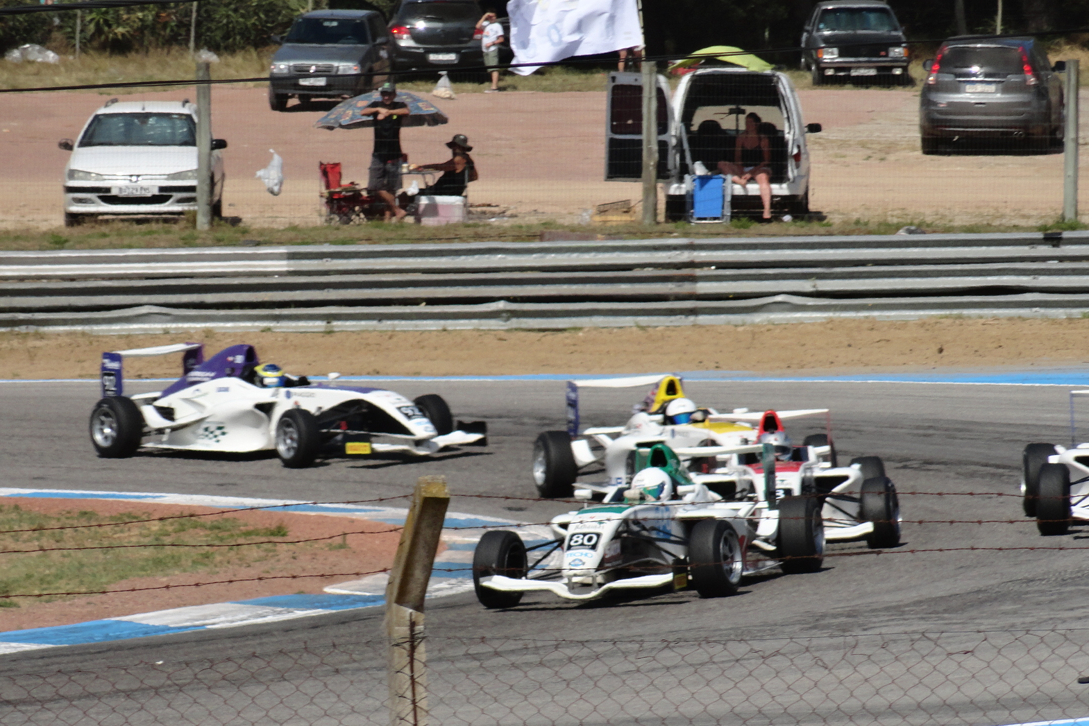 South American Formula 4 Championship main race at the 2016 Gran Premio Coronación AUVO at the Autódromo Víctor Borrat Fabini de El Pinar